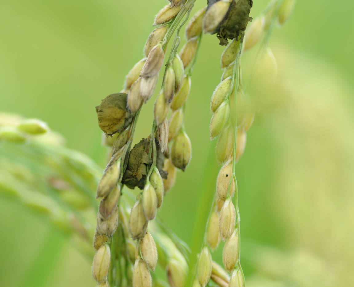 Rice false smut disease